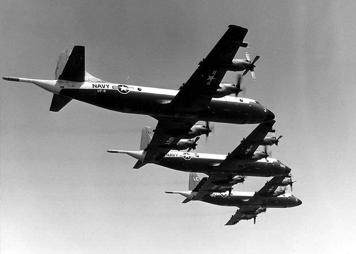 Three U.S. Navy Lockheed P-3A Orion of Patrol Squadron VP-8 Tigers in flight on 11 August 1962. Note that each aircraft is flying with both outboard engines shut down. VP-8 was converting to the P-3 Orion.